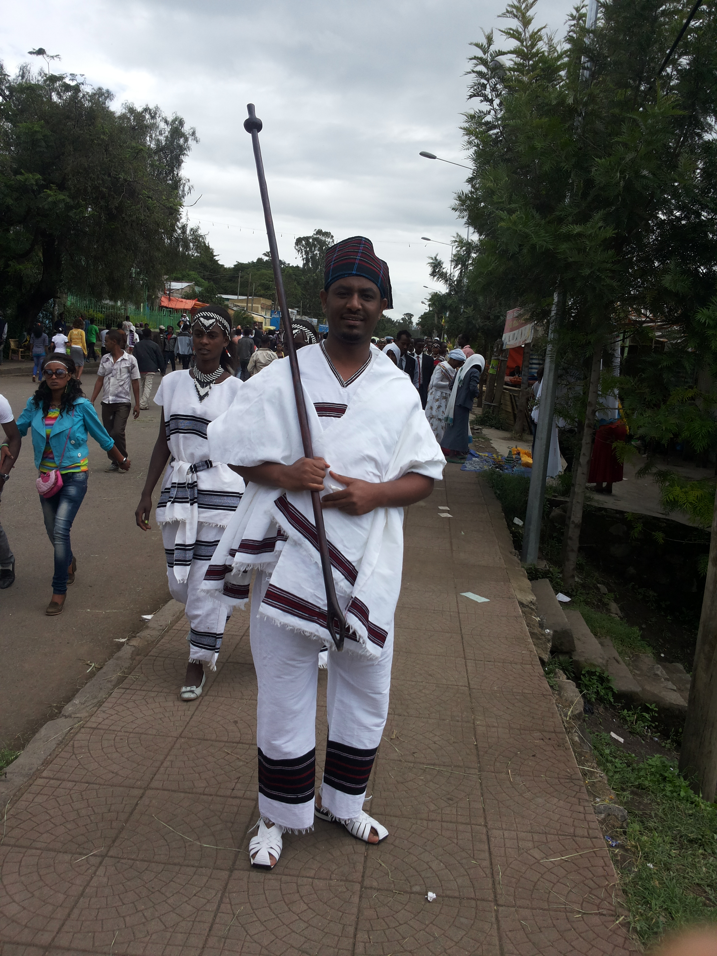 Irrecha Festival 2014 አማርኛ: ኢሬቻ በአል ፪፻፯ This is an image of food from Ethiopia